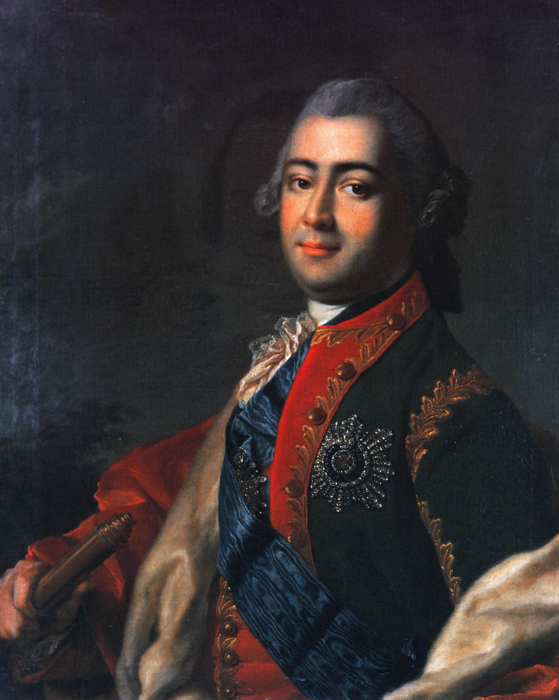 Alexei Grigorievich Razumovskiy